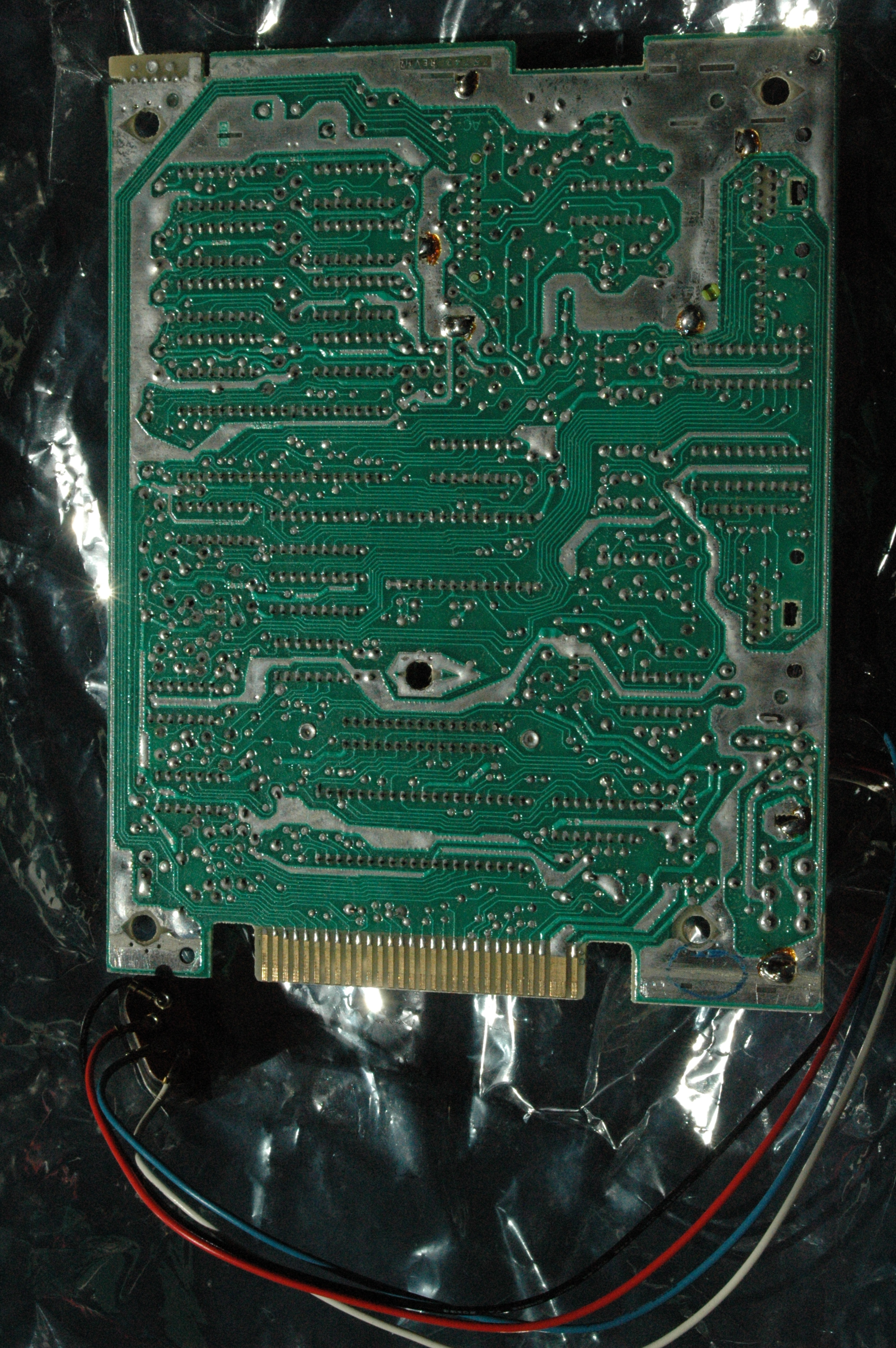 A picture of the bottom-side of the circuit board used in a ColecoVision home video game system of ~1982-1983